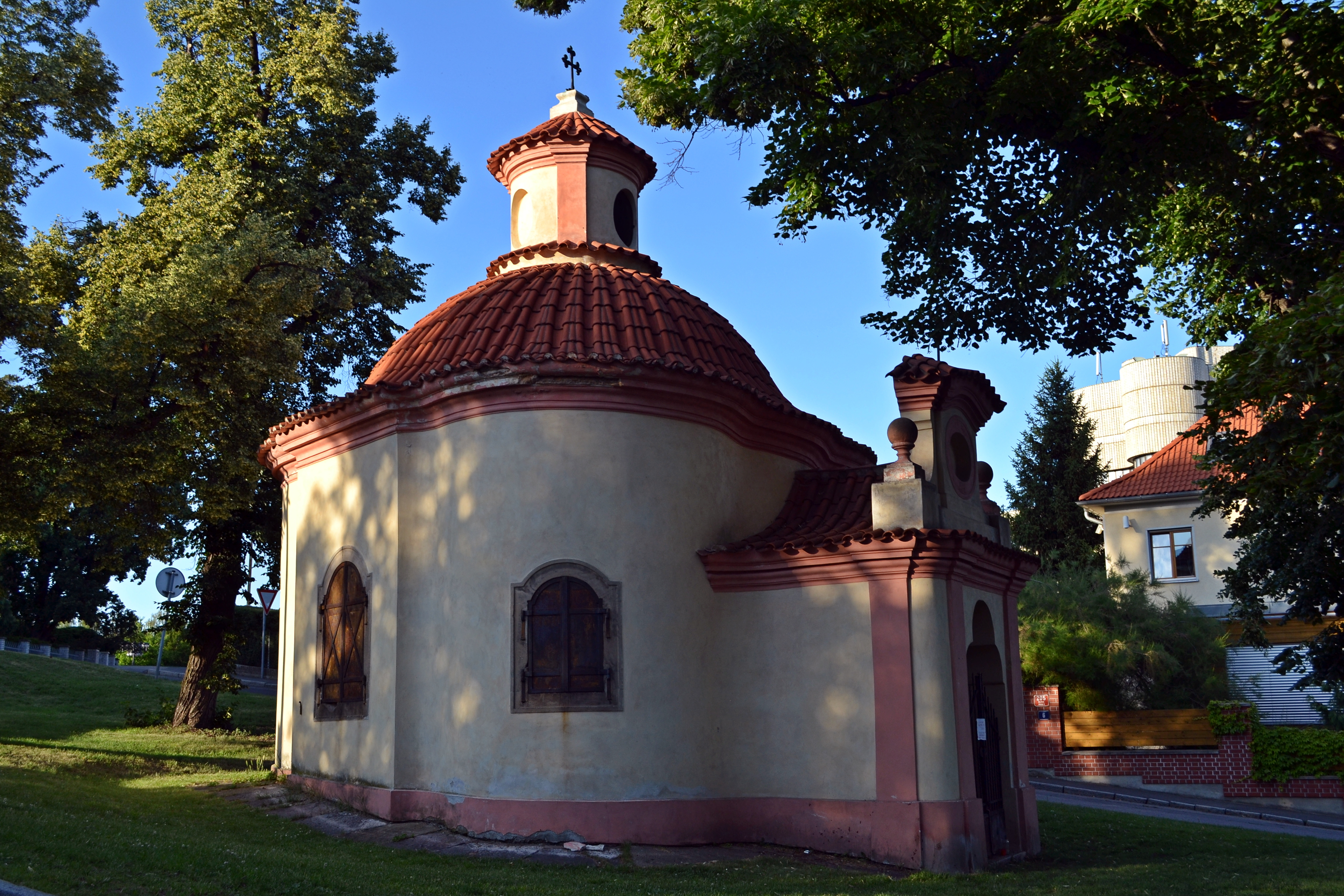 Holy Trinity Chapel in Nad Komornickou street, Dejvice, Prague, Czech Republic.